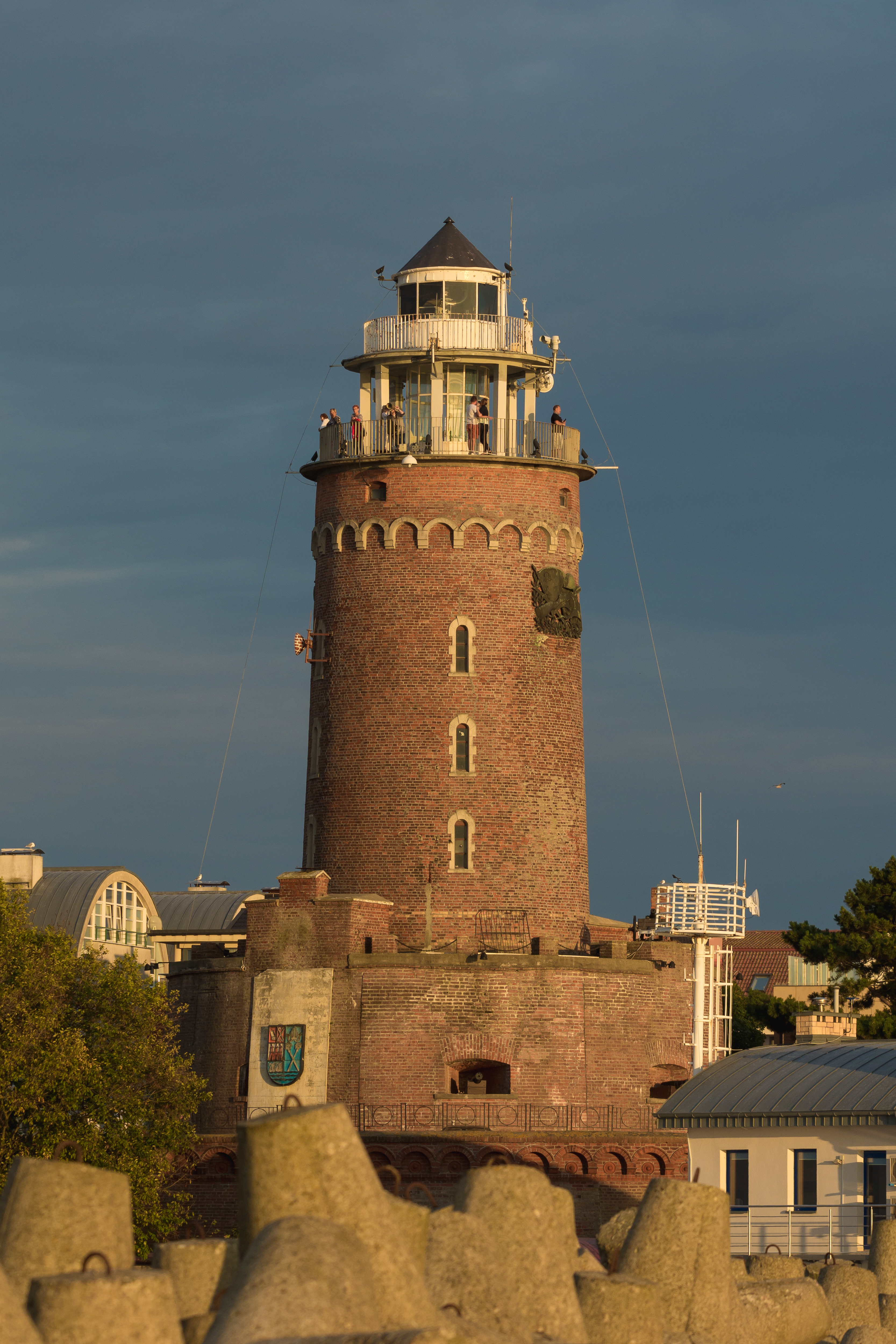 Photo taken during a trip on the Polish coast in July 2018. An expedition co-financed by the Wikimedia Poland Association and the Society of the Friends of the National Maritime Museum in Gdańsk.